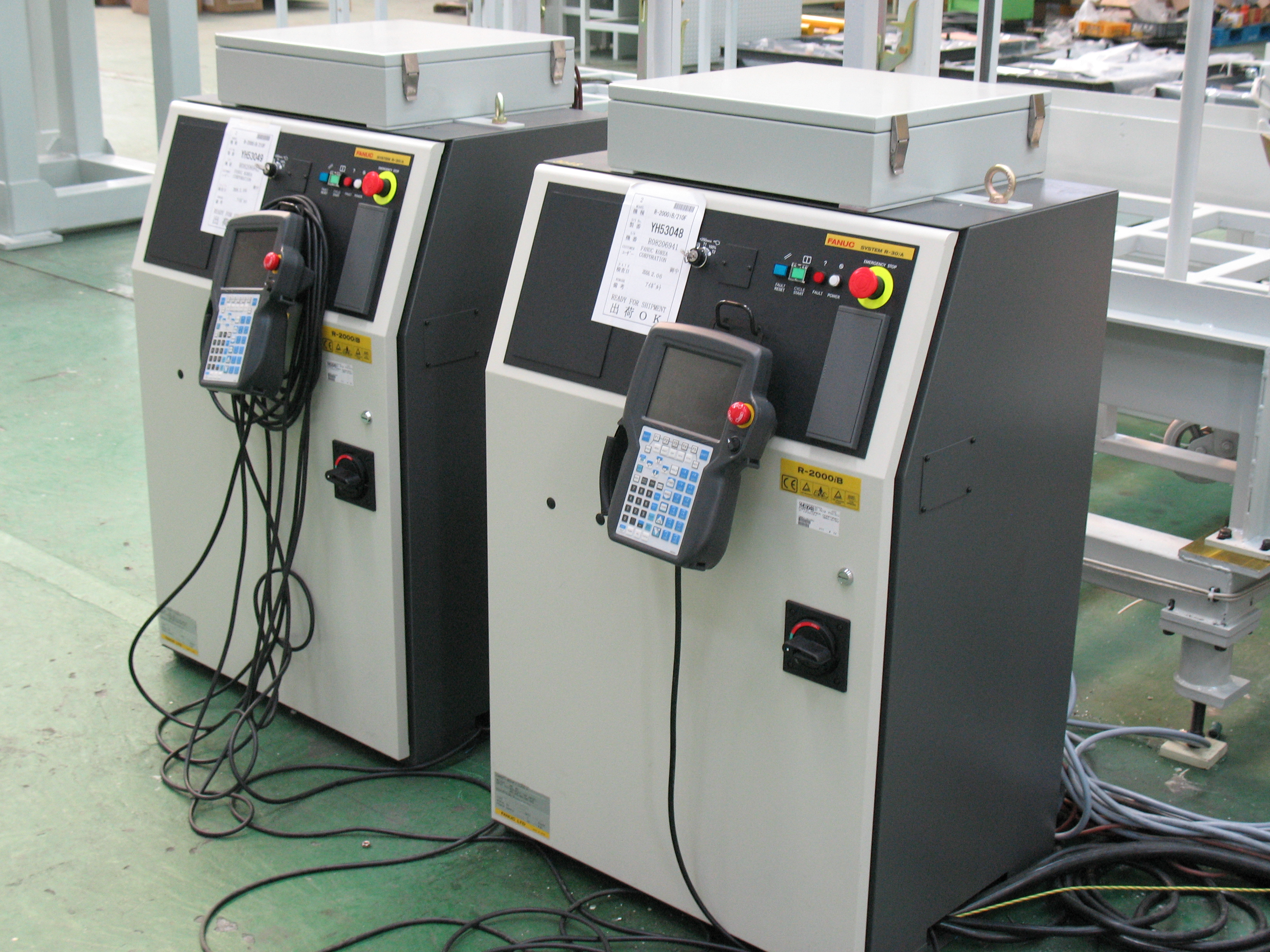 Two FANUC R2000iB industrial robots' control unit cases.